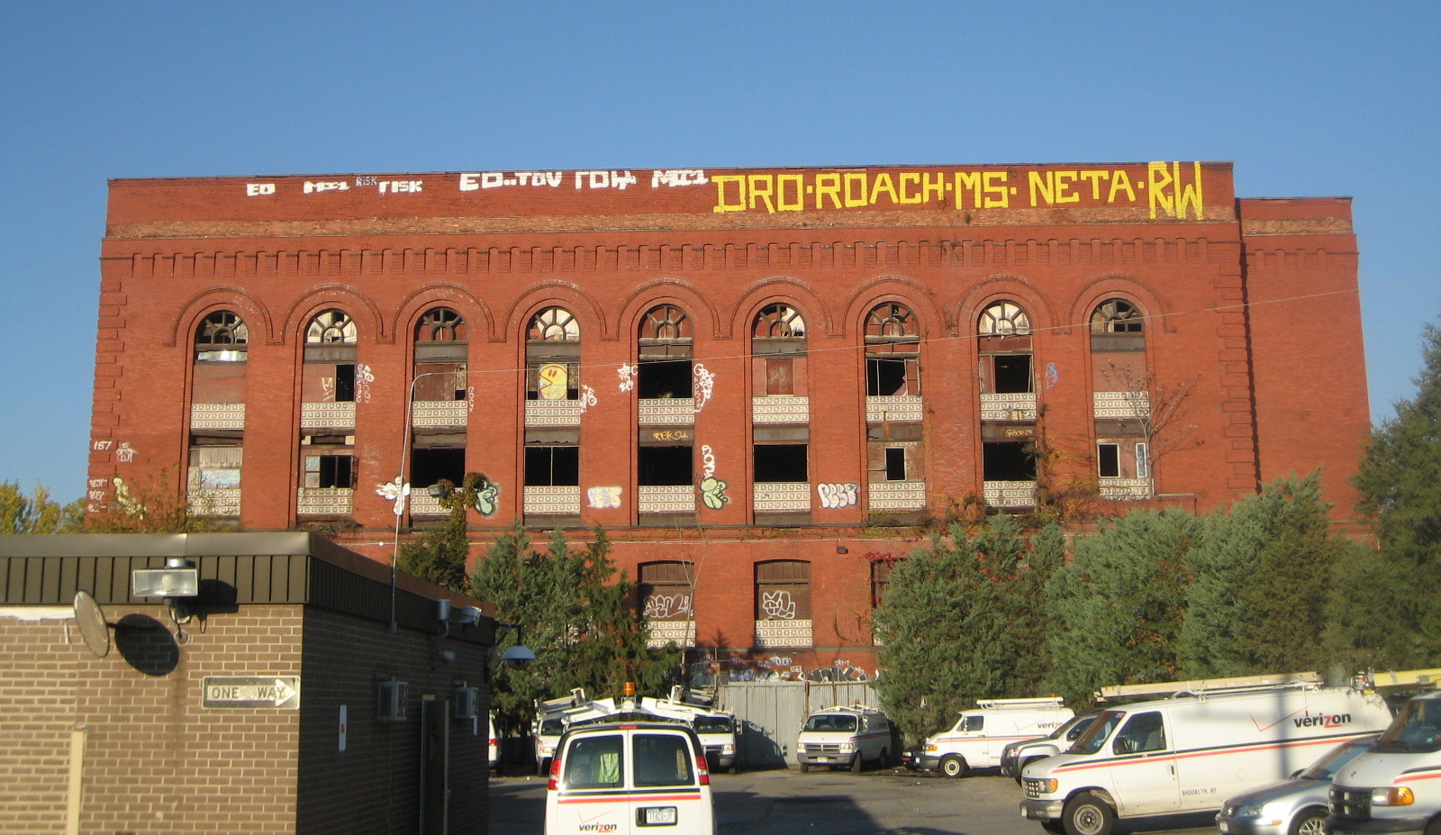 Looking northeast from 3rd Street at the former BRT (see ) Power House between Third Avenue and the Gowanus Canal, currently vacant and owned by Verizon Communications.